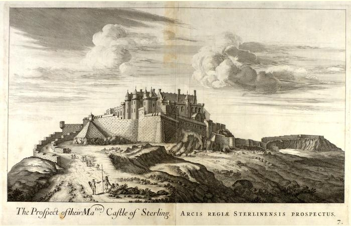 'The Prospect of their Ma'ties Castle of Sterling'. Engraving from John Slezer's 'Theatrum Scotiae' 1693 (National Library of Scotland)